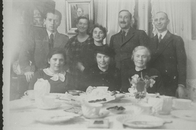 Description: Stefan Zweig and Friderike Zweig with unidentified others in the home of Henry and Grete Joske; Vence, France Creator/Photographer: Unknown Medium: Black and white photographic print Date: 1937 Repository: Leo Baeck Institute, 15 West 16th Street, New York, NY 10011 Call Number: F 3762 Rights Information: No known copyright restrictions; may be subject to third party rights. For more copyright information, click here. See more information about this image and others at CJH Archives and Library Catalog. Digital images created by the Gruss Lipper Digital Laboratory at the Center for Jewish History